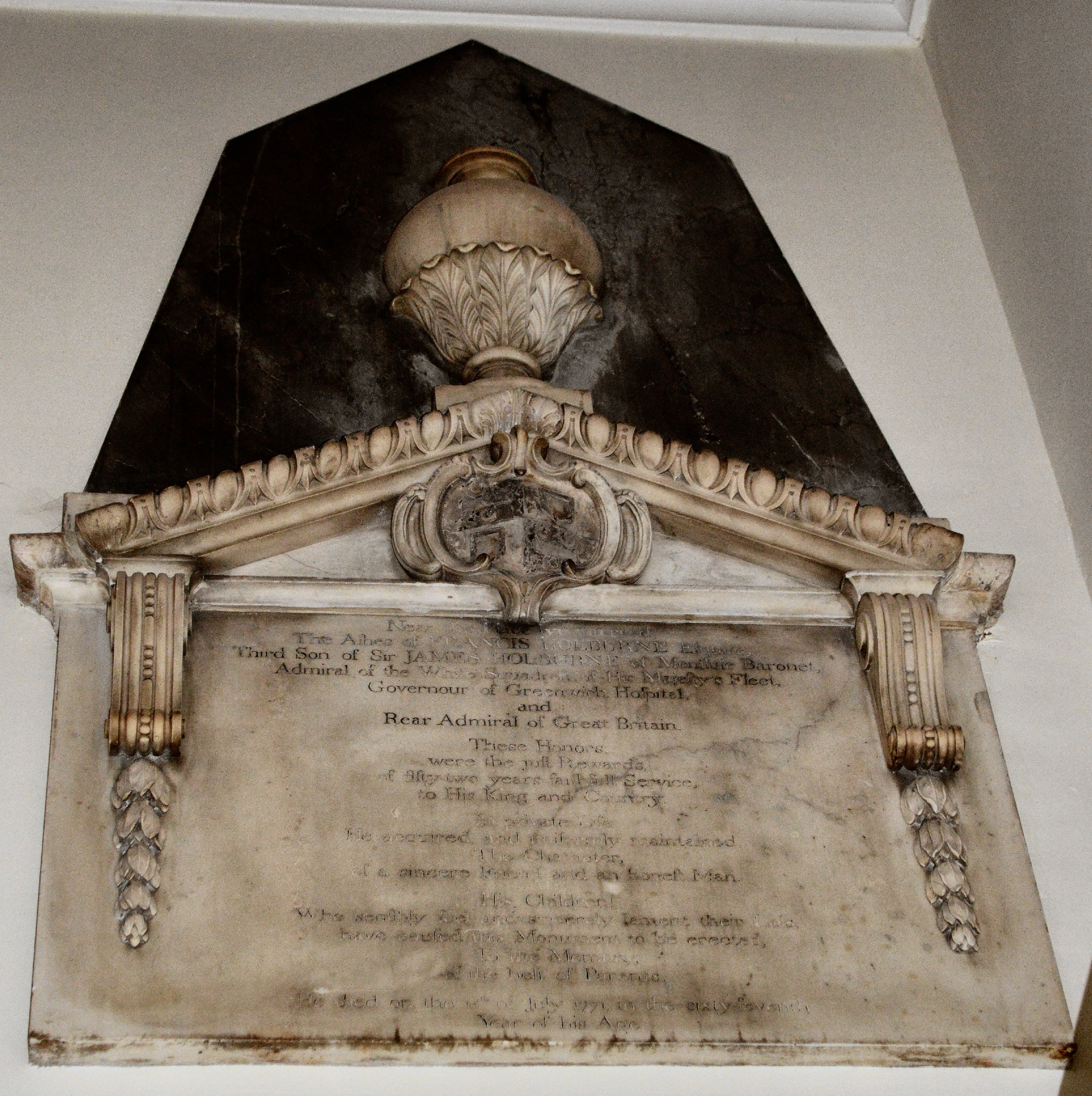 St Mary Magdalene's, Richmond, Memorial to Admiral Sir Francis Holburne (1704-1771). In the room at the back of the church. Arms: Quarterly of 4: 1&4: Gules, a fess couped between three crescents or (Holburne) 2&3: Or, an orle gules (?) (Source: Burke's Genealogical and Heraldic History of Peerage ..., Volume 10; Volume 12, p.520, Holburne baronets.[1])